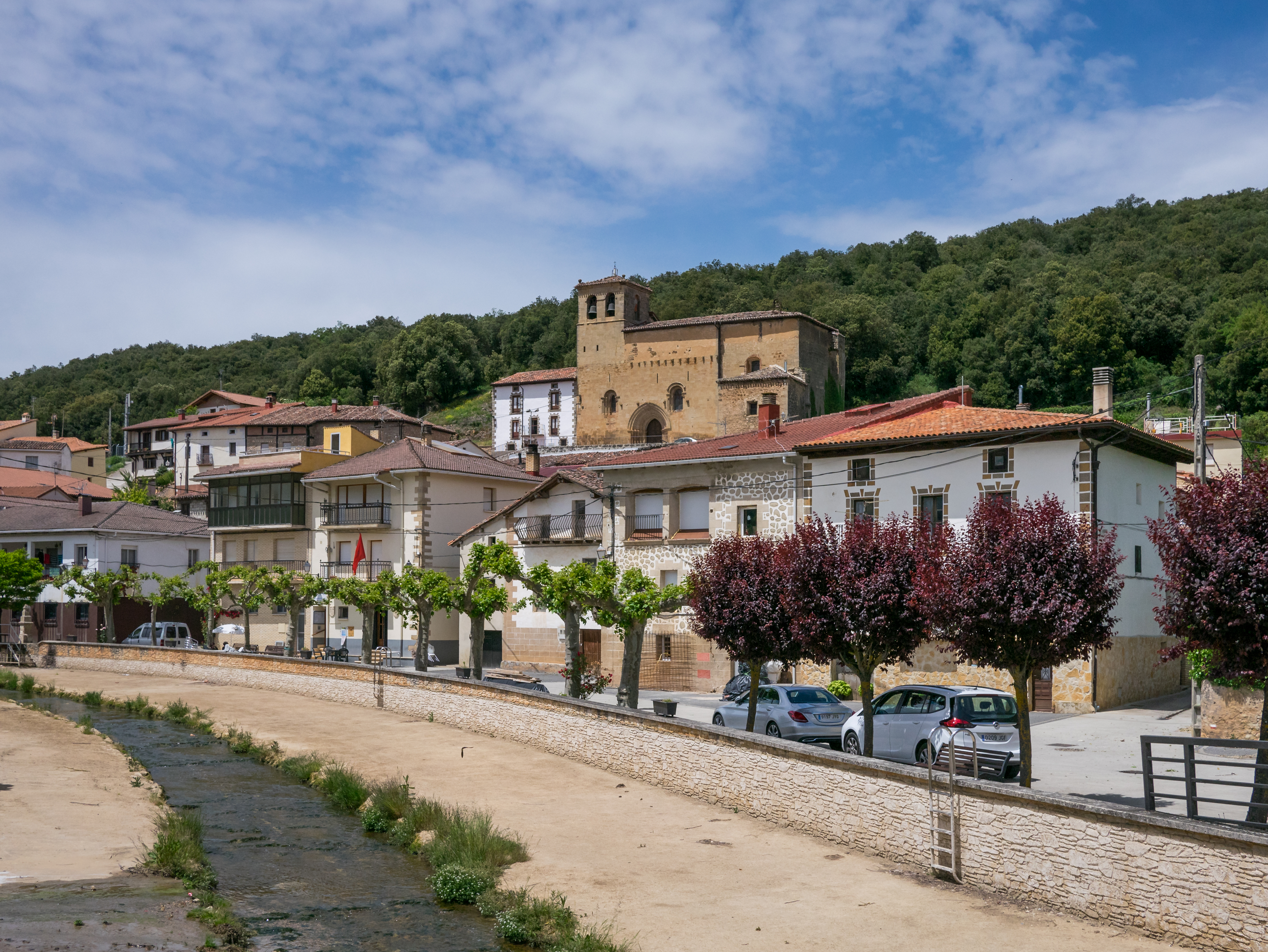 View of Marañón, Navarre, Spain